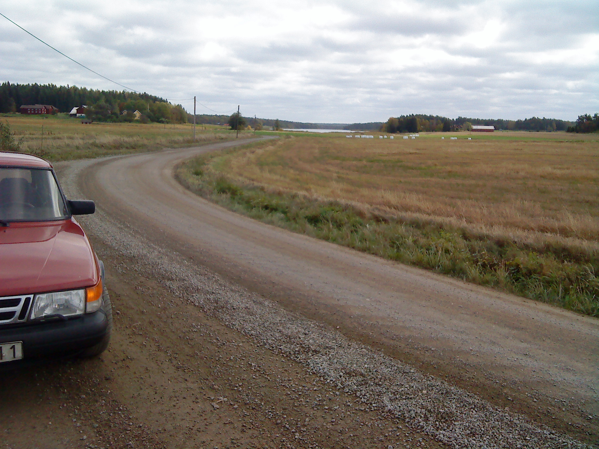 County road C-819 at Ryssjö, parish Österunda, Uppland, Sweden